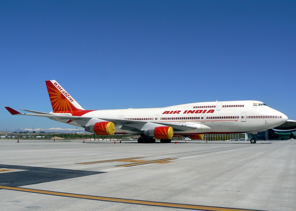 Air India, Boeing 747-437, cn 27164/1003. Used by President of India in her visit to Madrid. Utilizado por la Presidenta de India en su visita a Madrid.